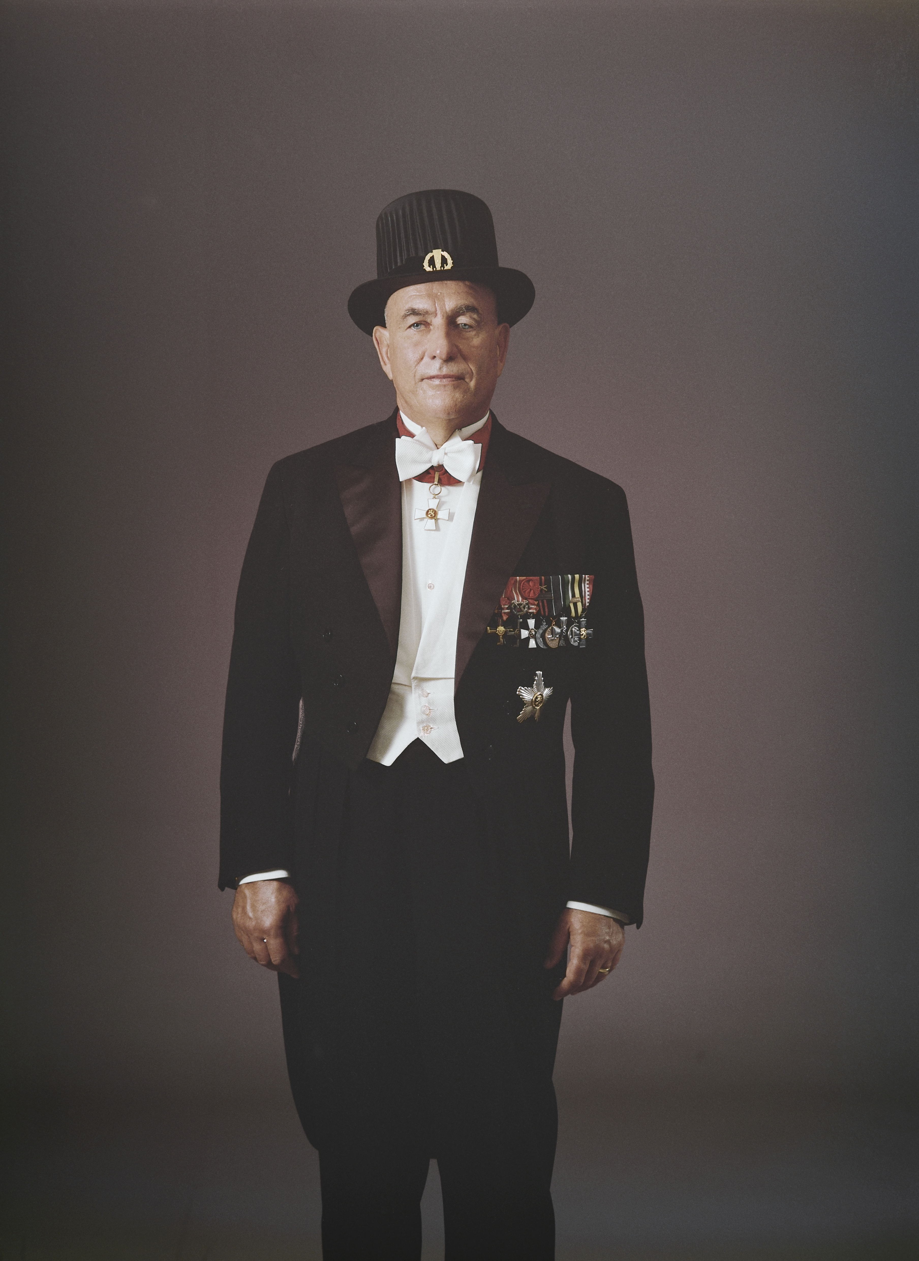 Photograph of the Finnish businessman Erik Tuomas-Kettunen (1916–2001).